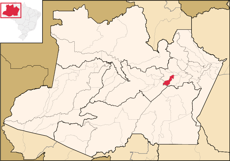 Localization of Manaquiri in Amazonas state, Brazil.